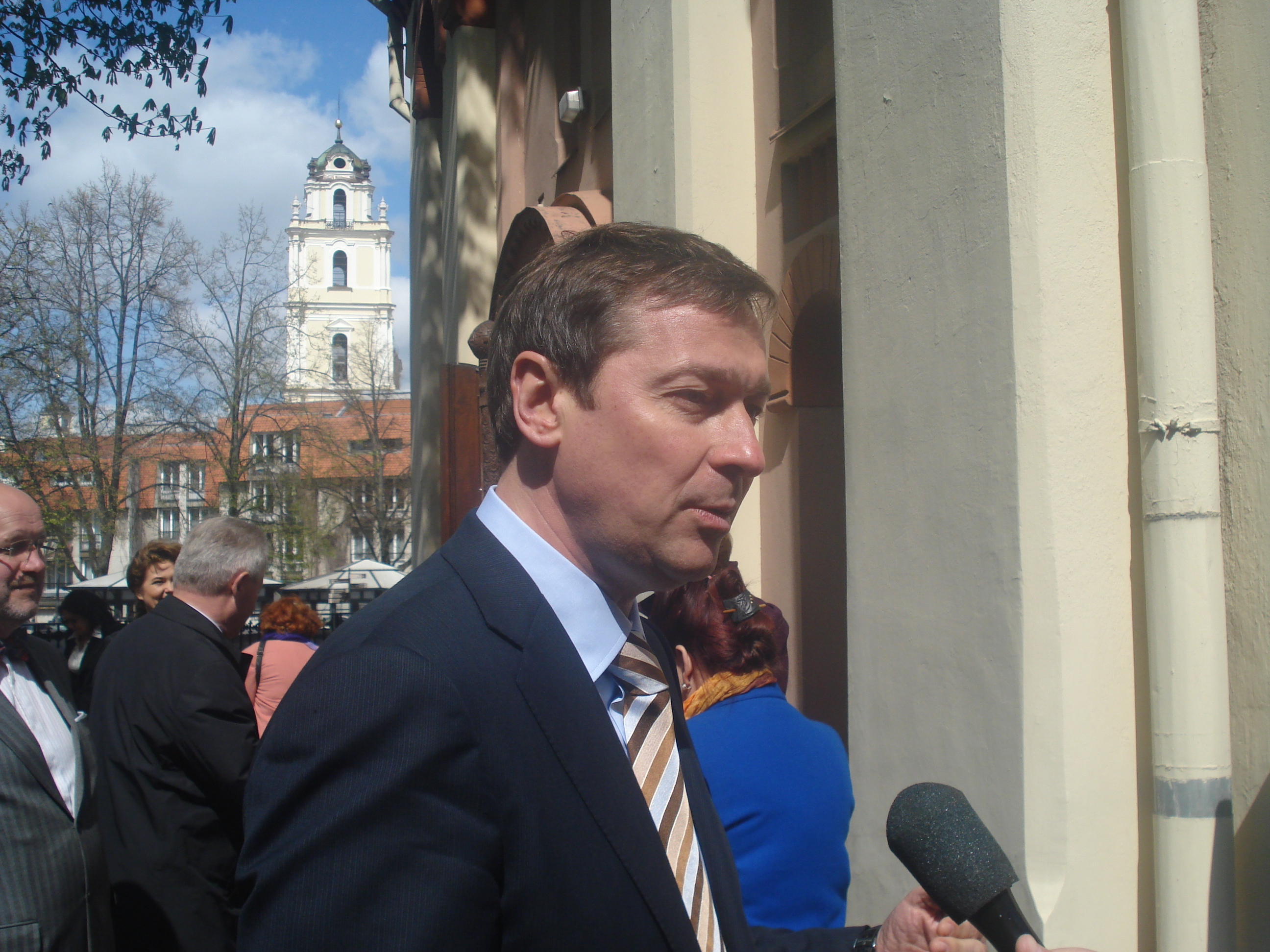 Artūras Zuokas, Lithuanian businessman and politician